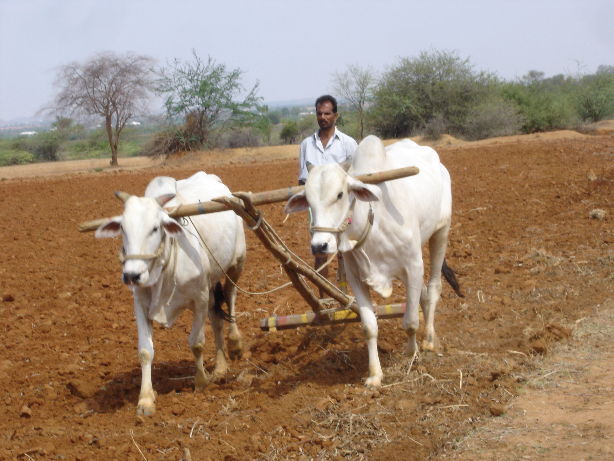 This is the Photograph of a Farmer from drought prone Mahabubnagar District, preparing his field for the rainy season 2005 Dr. N. Sai Bhaskar Reddy, June 2005